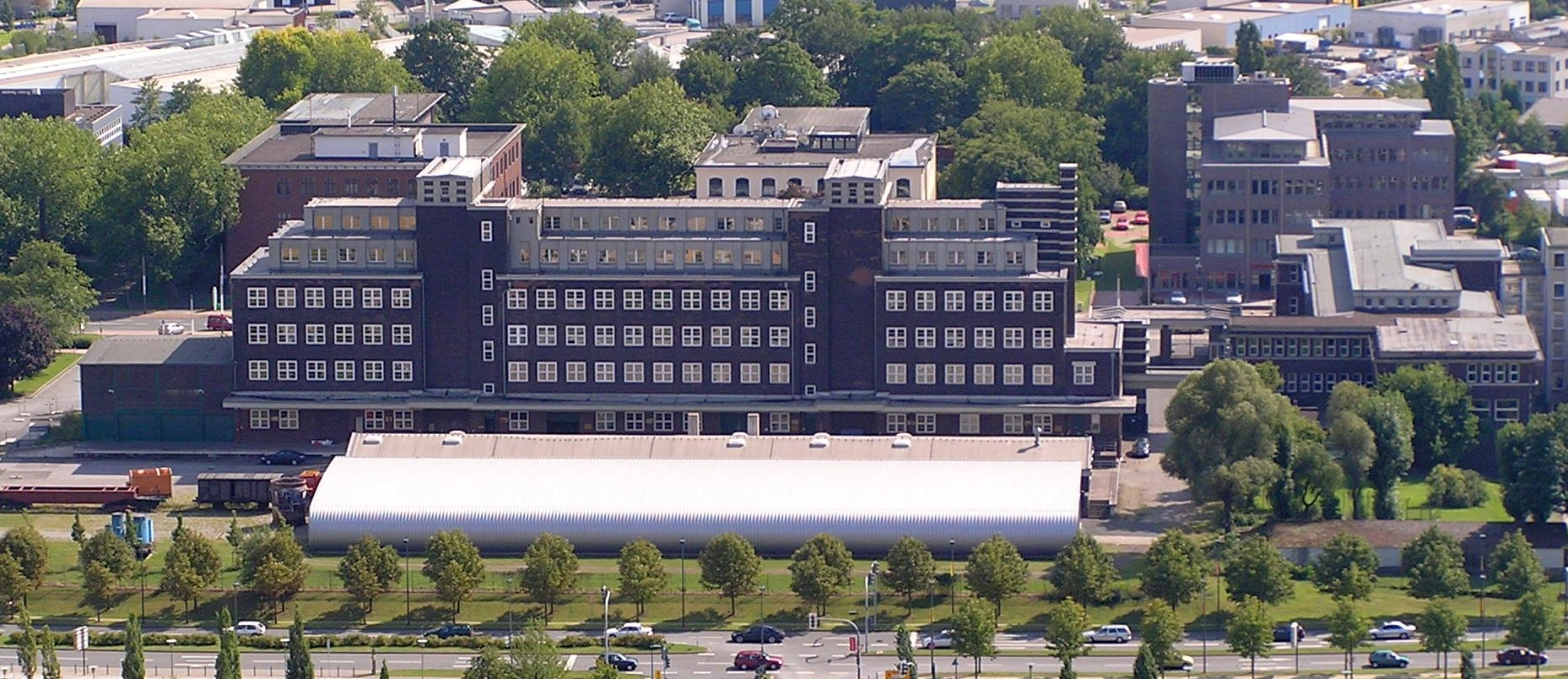 Main warehouse of the metallurgy "Gutehoffnungshütte", Oberhausen